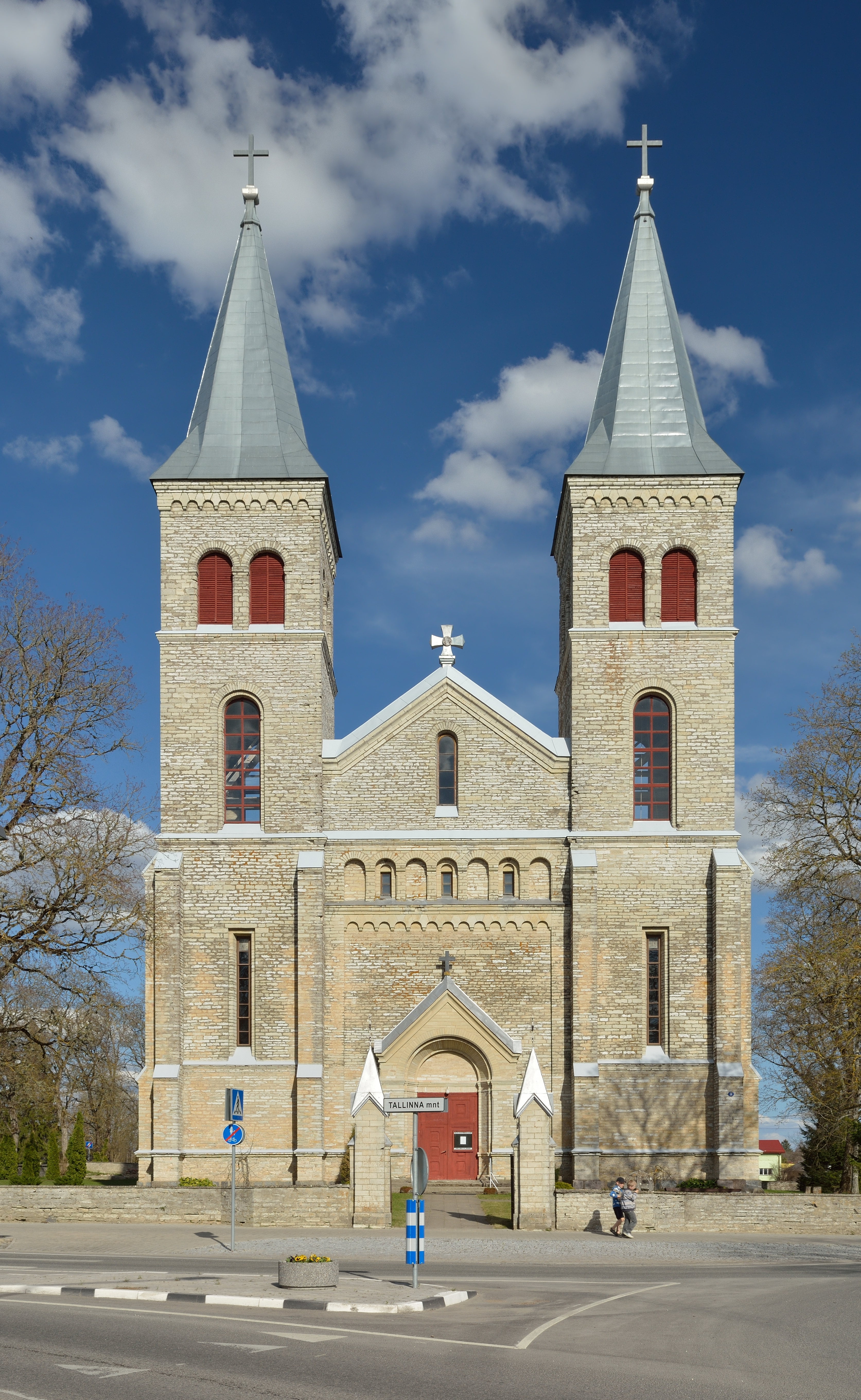 Rapla St Mary Magdalene Church, built in 1899-1901